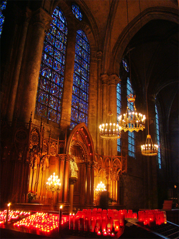 Chartres Cathedral, Eure-et-Loir, Centre, France. The chapel of the Holy Heart of Mary.